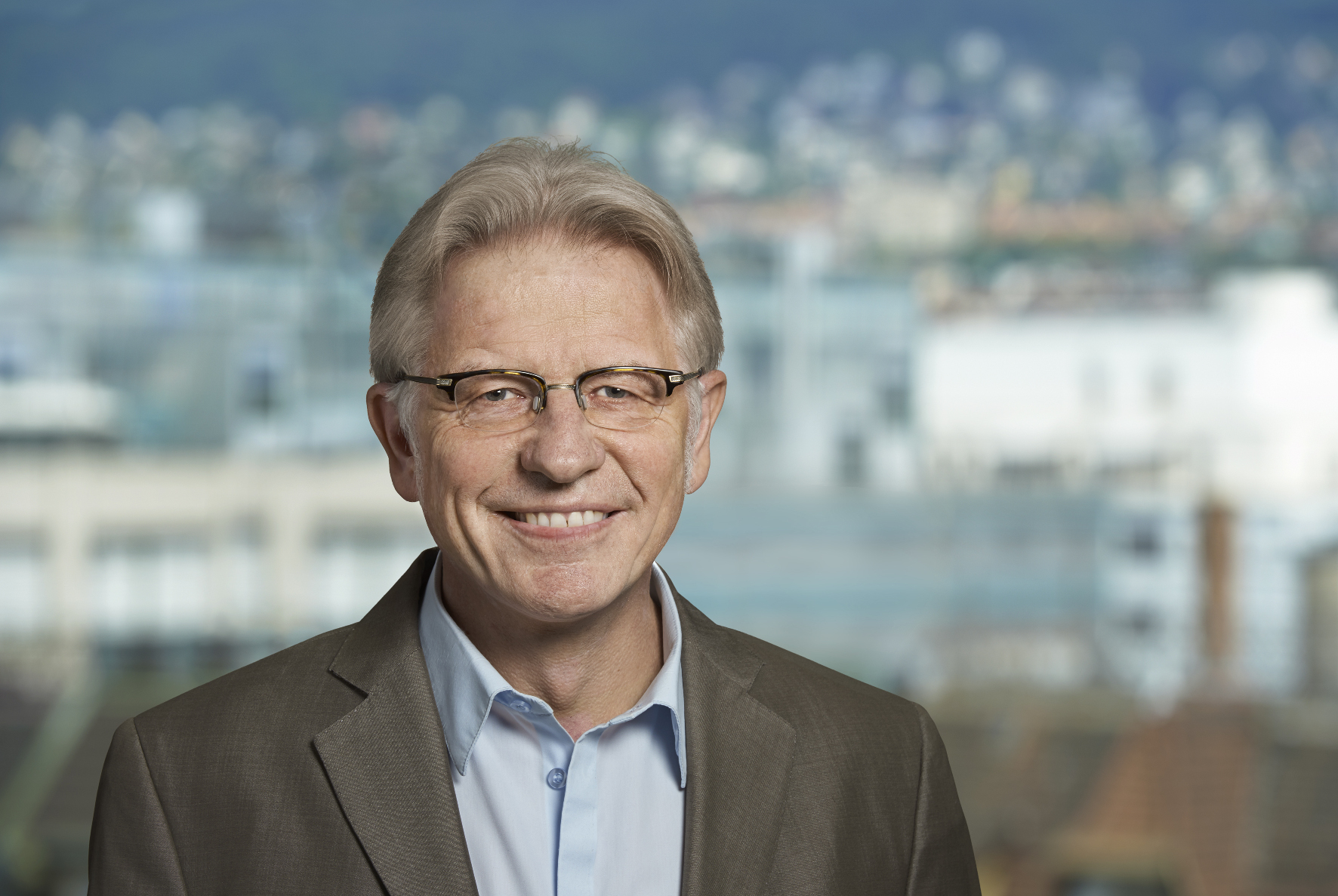 Markus Bischoff, politician of the Alternative List.